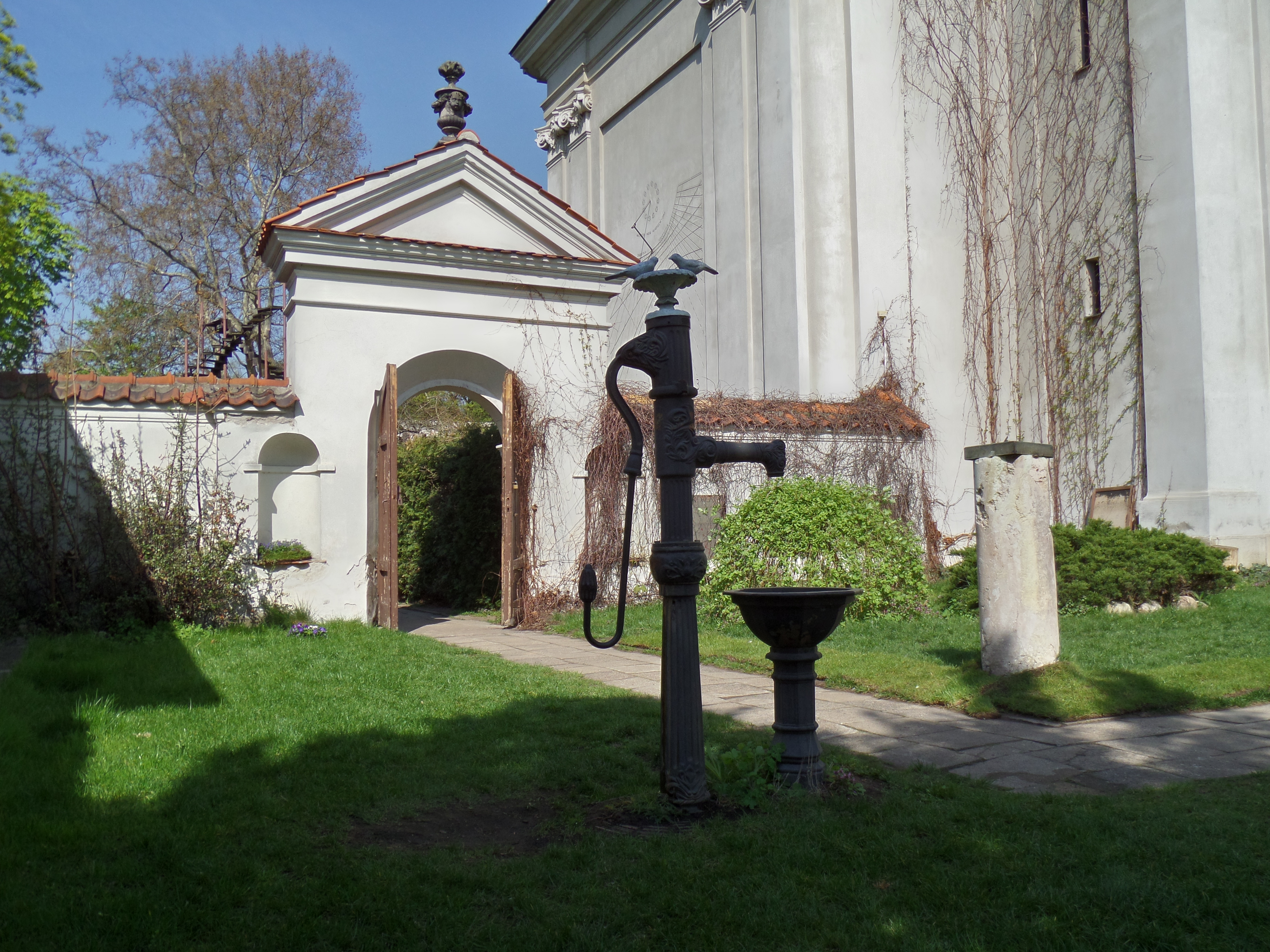 Gate to hermitages - Church of Camaldoleses in Warsaw